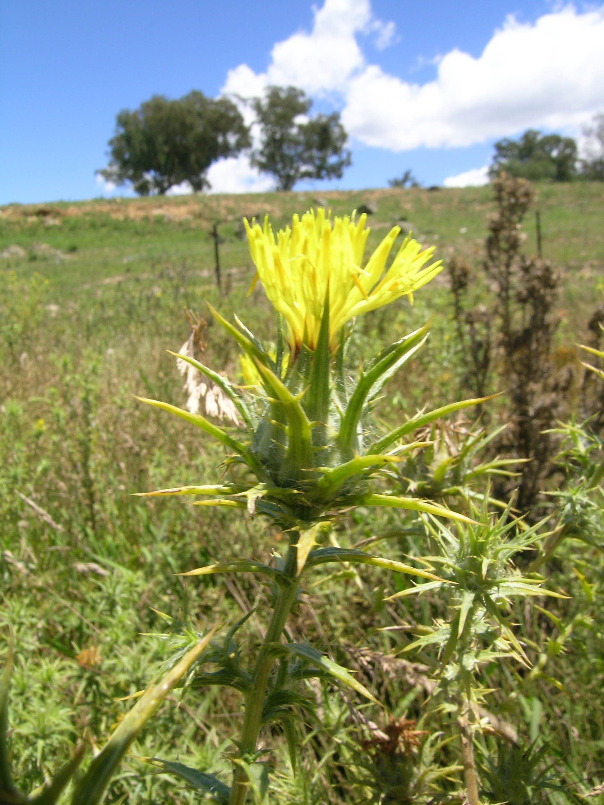 Carthamus lanatus